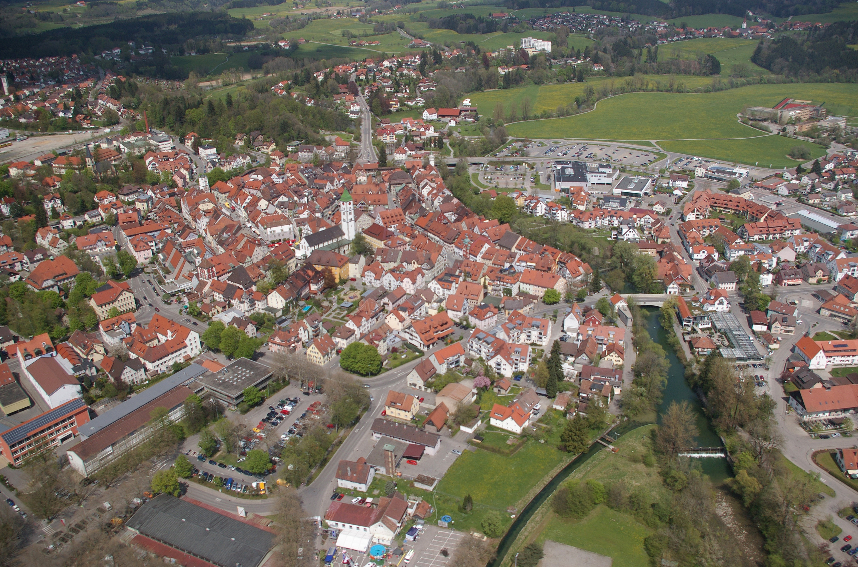 Areal view of the inner city of Wangen im Allgäu